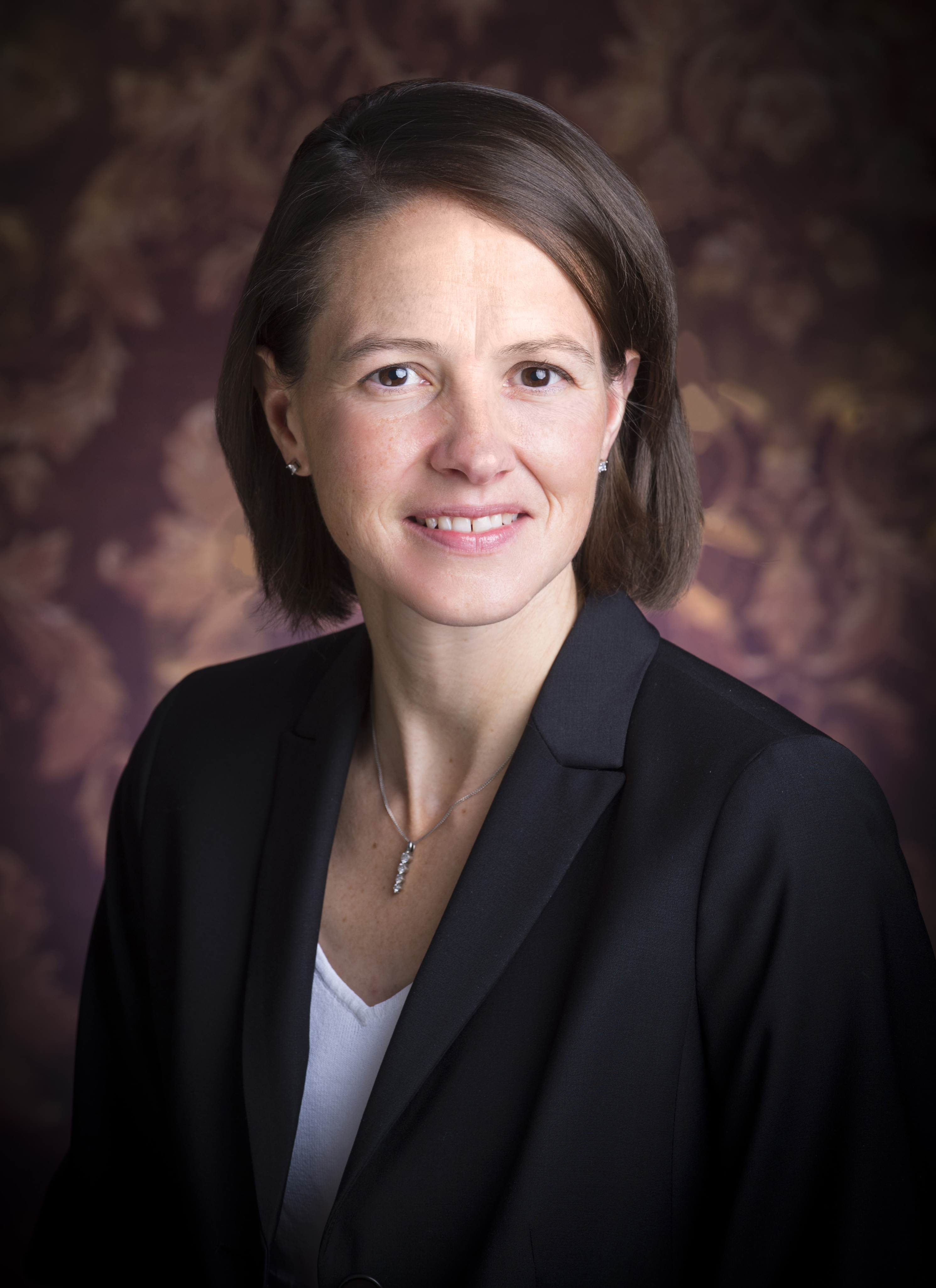 Heather Templeton Dill, president of the John Templeton Foundation